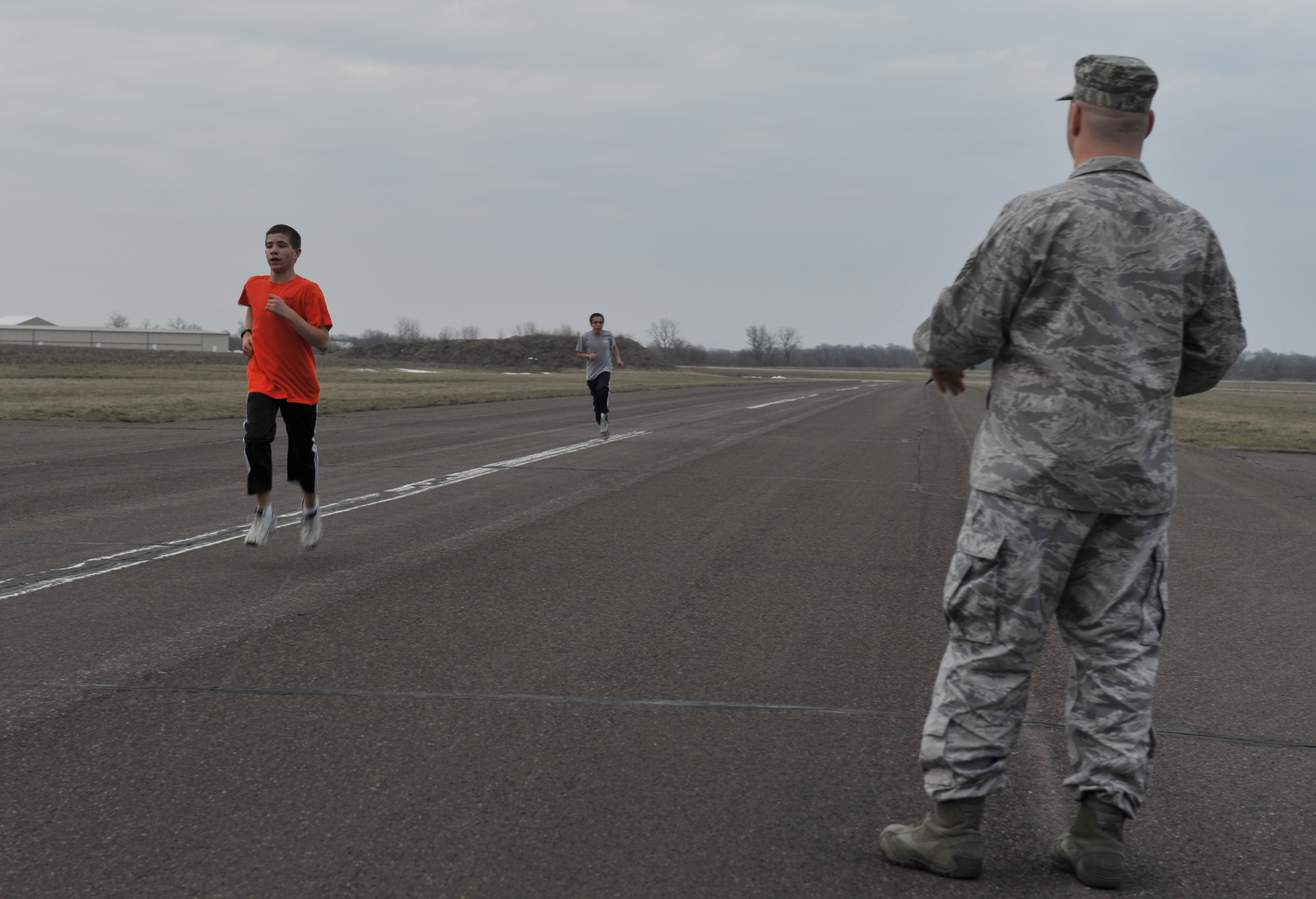 Master Sgt. William Sander, 509th Comptroller Squadron financial services superintendent, records run times for Alex, 14, and Breandan, 13, Civil Air Patrol cadets during their physical fitness assessment, March 28, 2013, in Sedalia, Mo.. Sander also monitors for safety during all cadet activities. (U.S. Air Force photo by Heidi Hunt/Released)